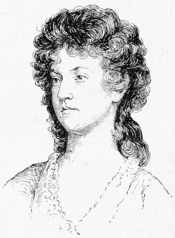 Portrait drawing of Francis Cadwalader Erskine (1781-1843)